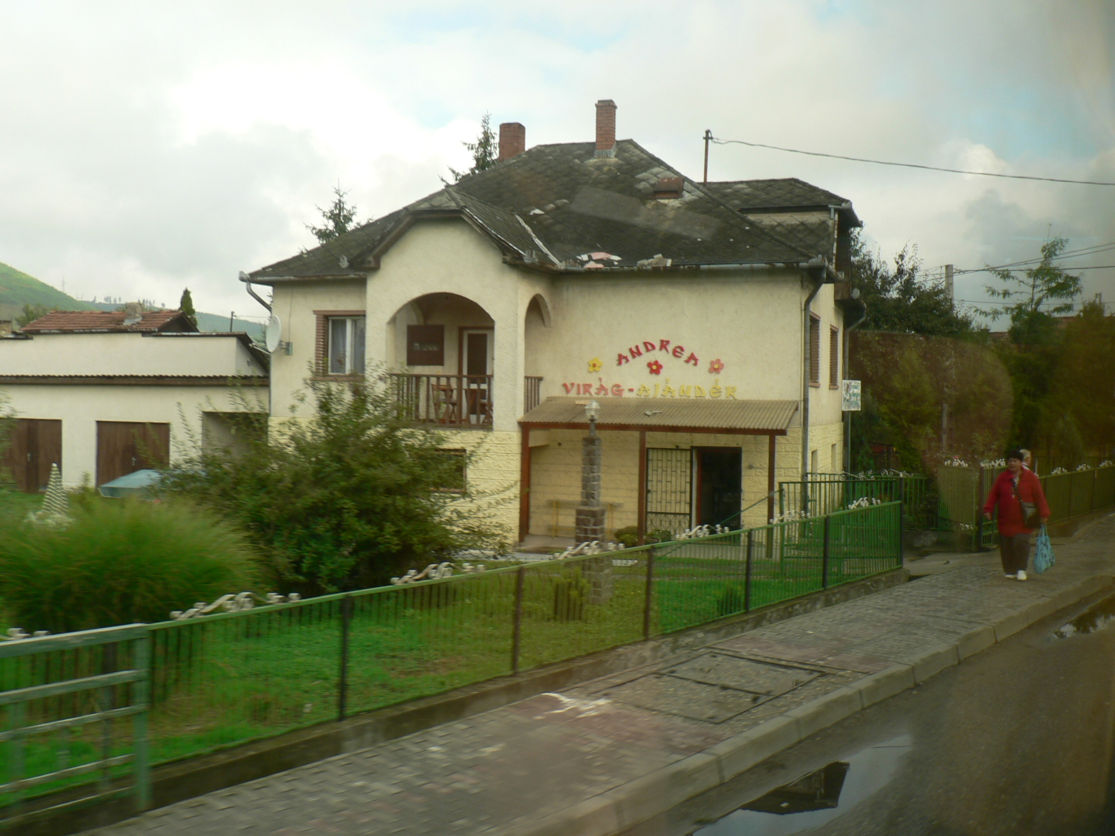 Arló - Flower shop